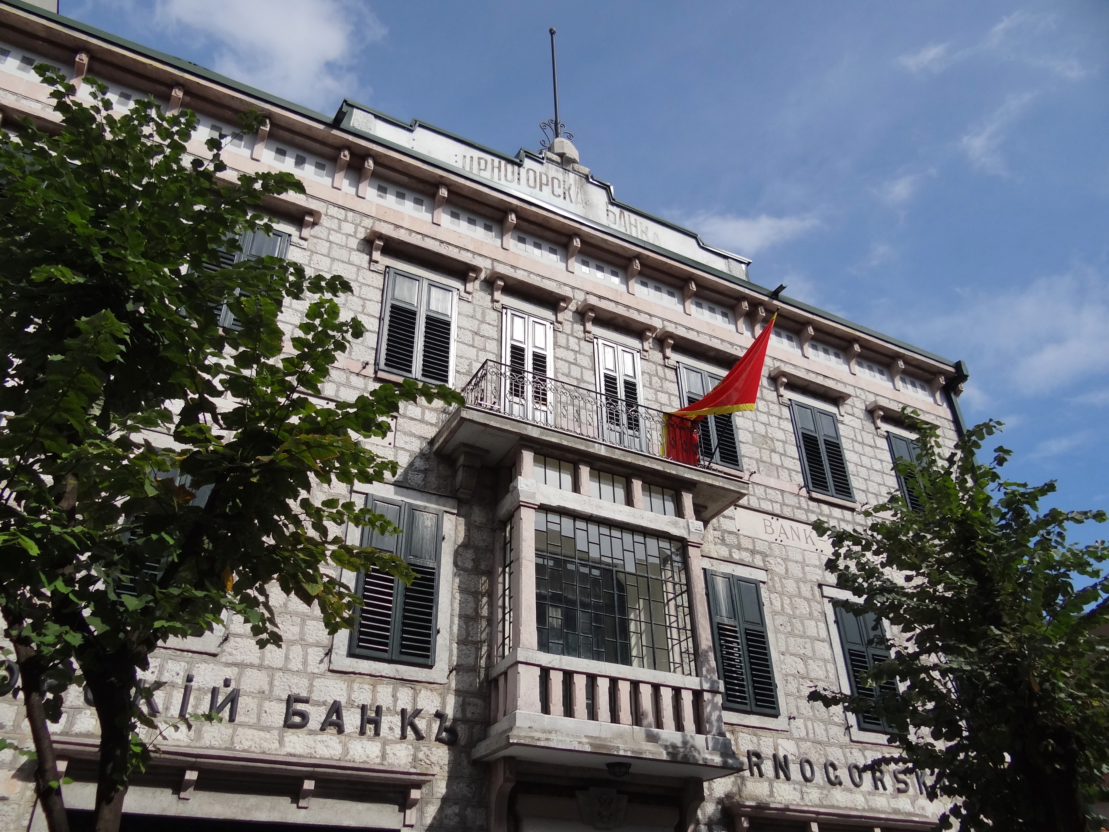 Bank of Montenegro Building - Cetinje - Montenegro - 01